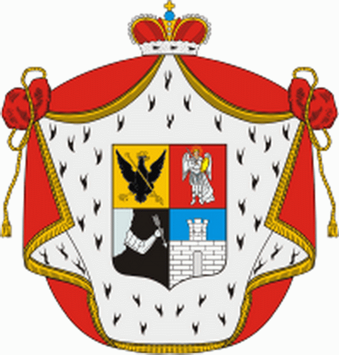 Coat of Arms of Dolgoruky family